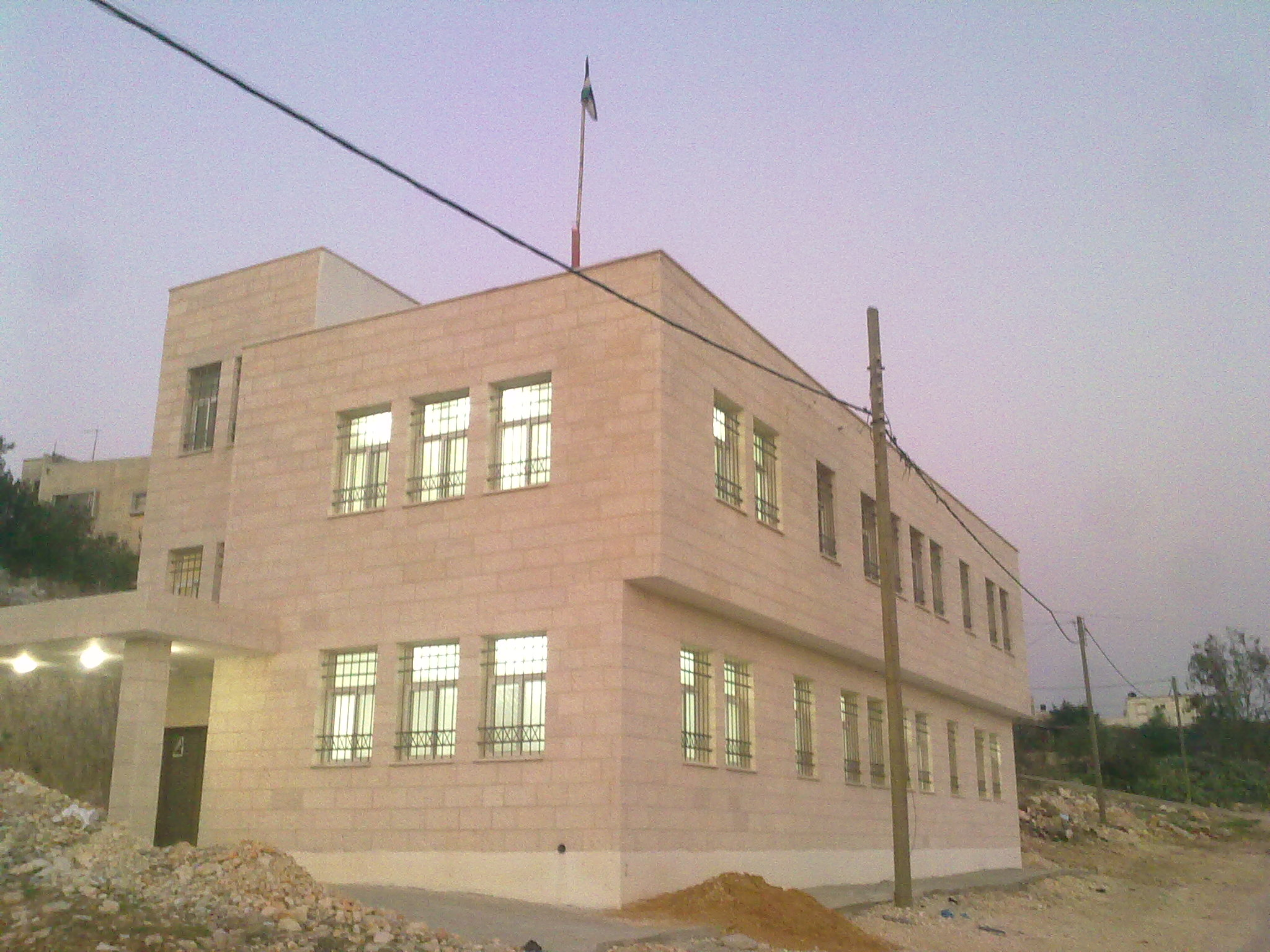 مجلس قروي شوفة